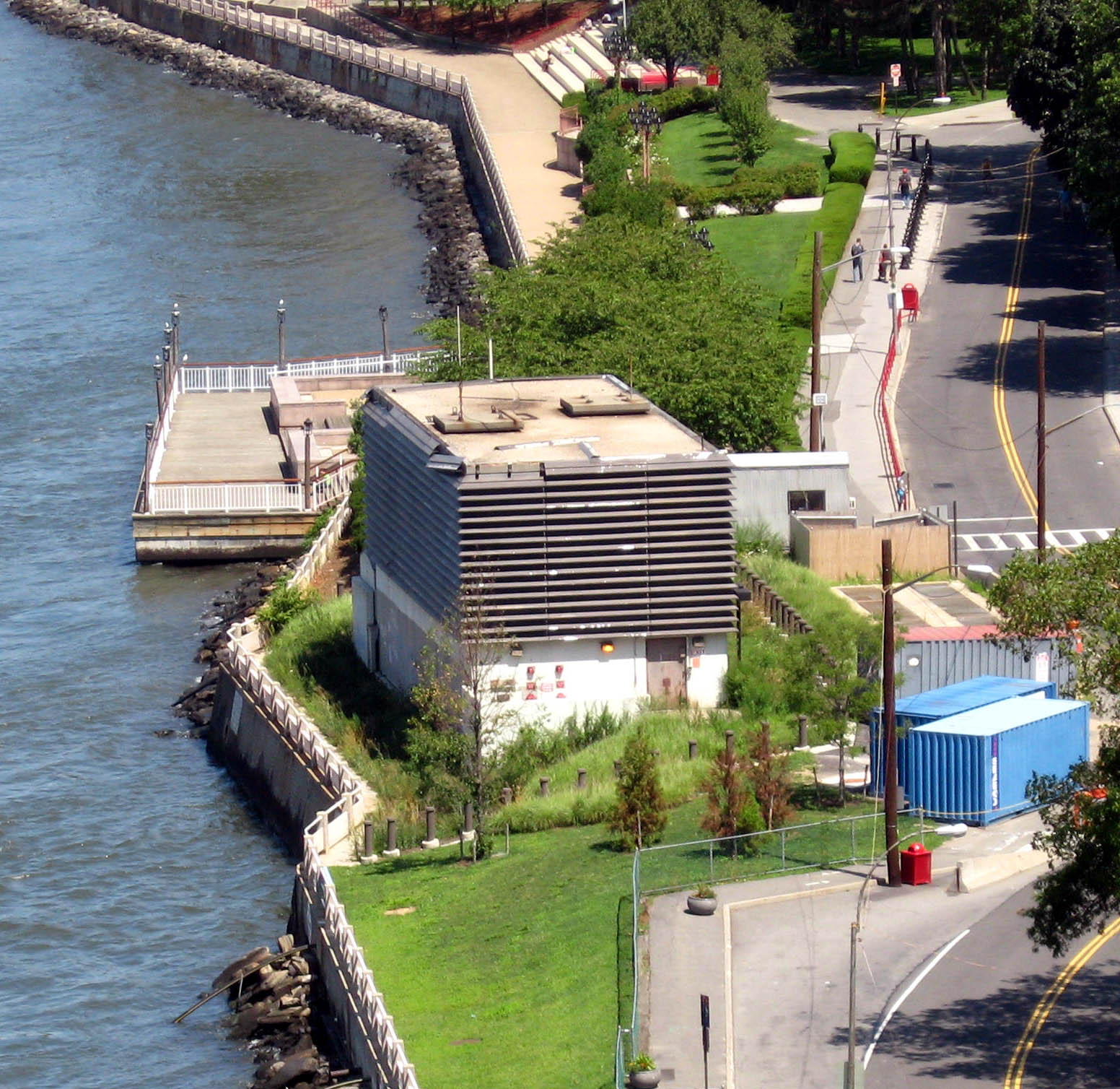 Looking north and down from Queensborough Bridge at venitlation structure for en:63rd Street Tunnel. See also Image:E63d St Ventilating Tower jeh.JPG